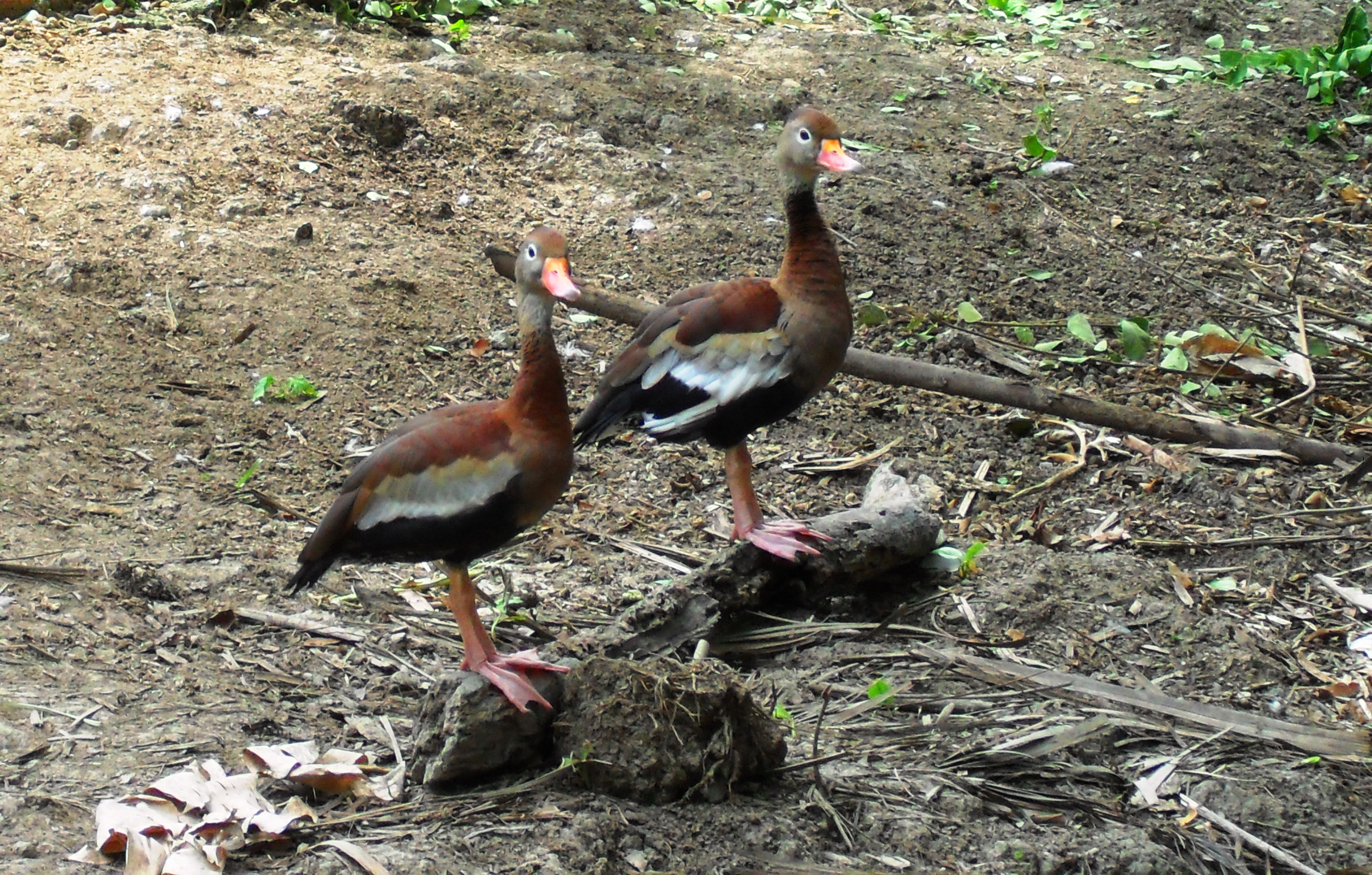 colombian Black-bellied Whistling Duck